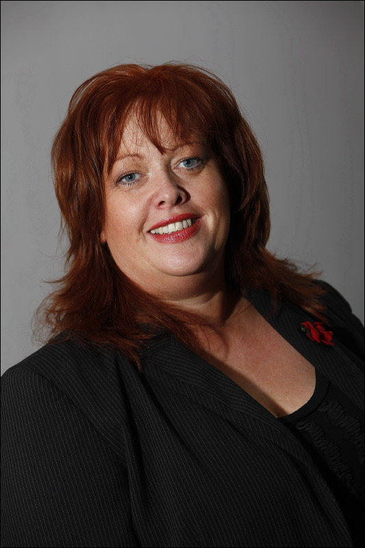 Anne McTaggart MSP portrait